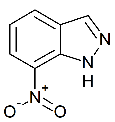 Structure of 7-Nitroindazole